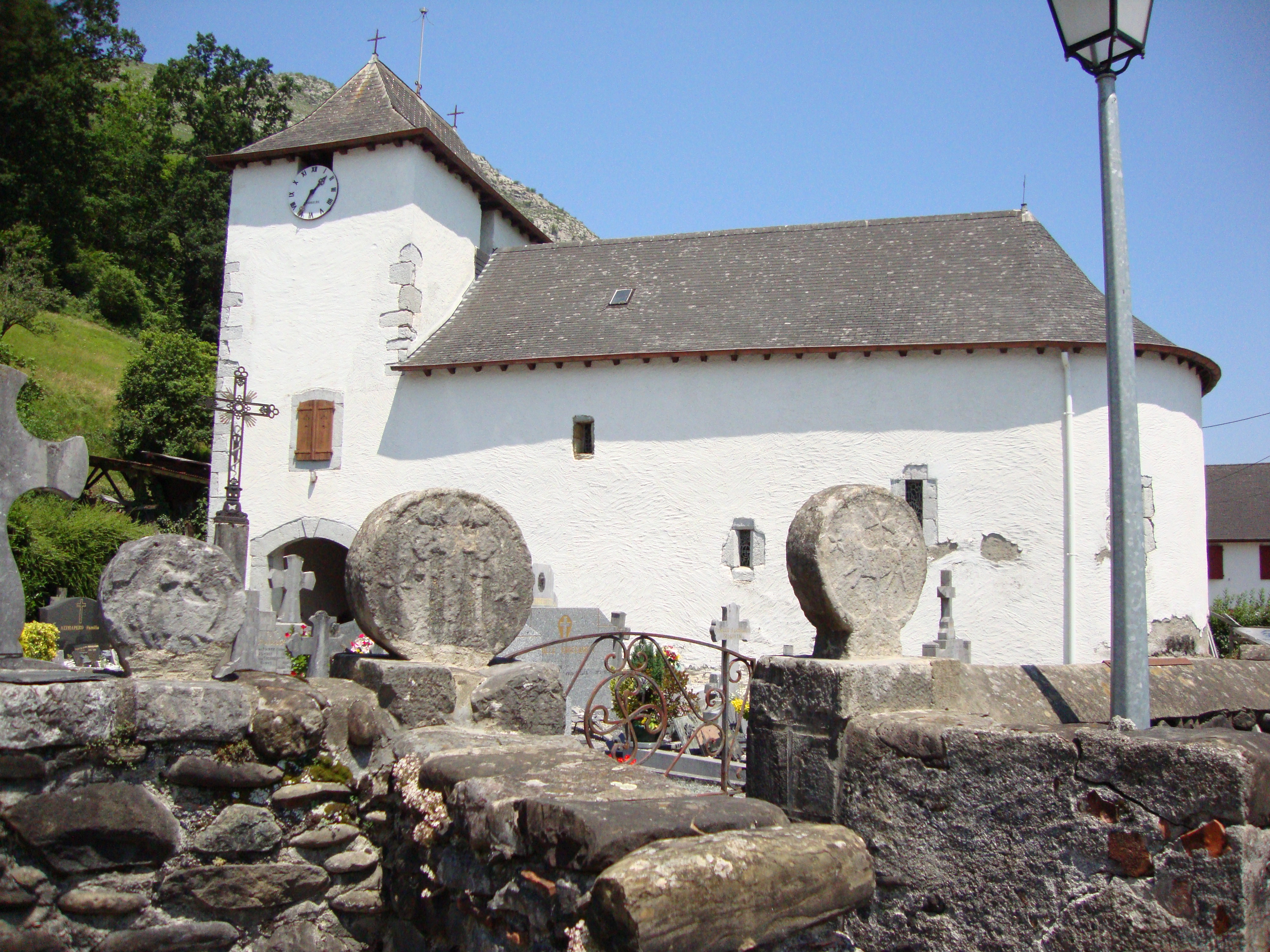 Athéry (Licq-Athéry, Pyr-Atl, Fr) church and some basque steles relocated on the churchyard wall